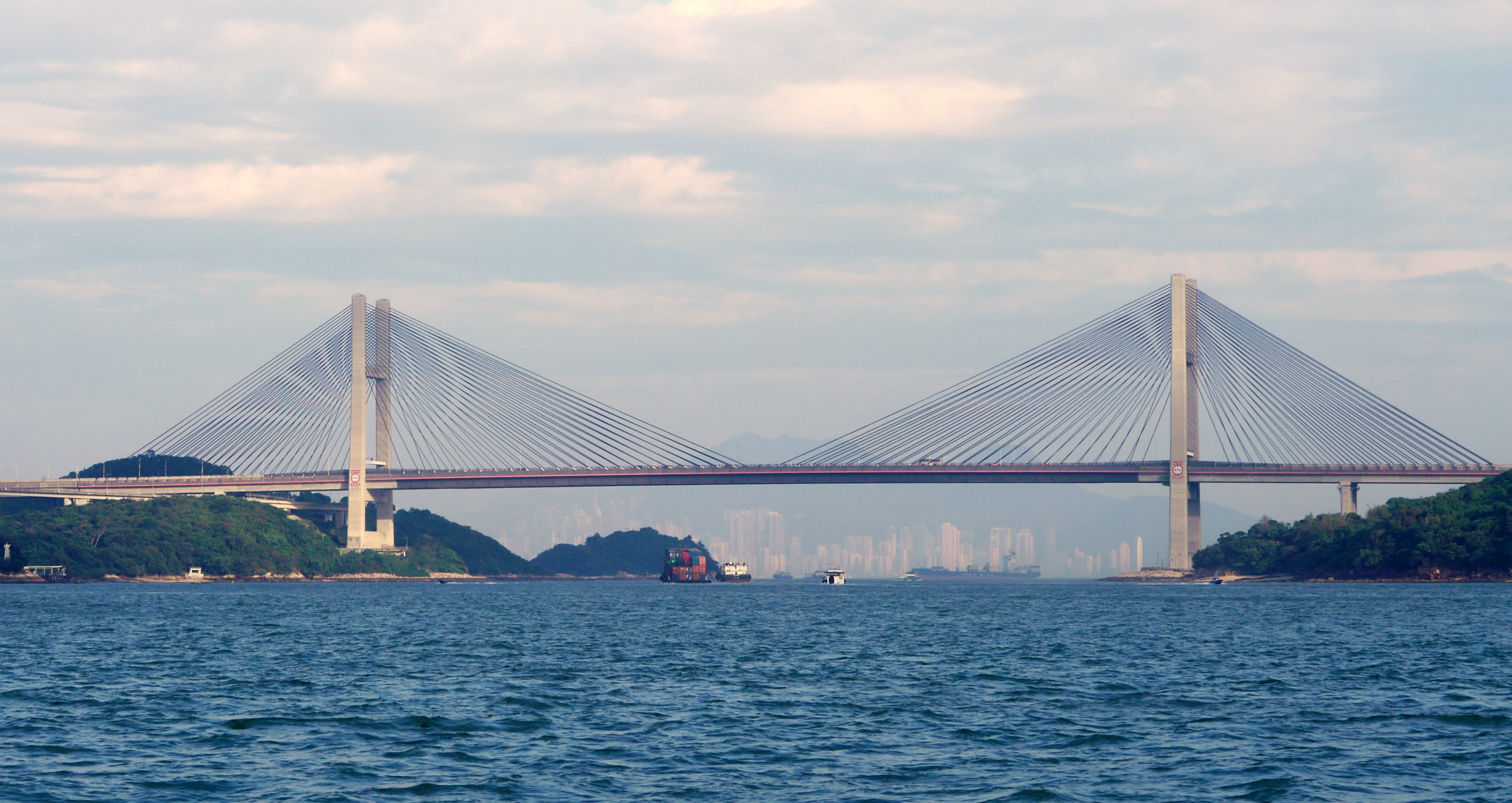 Bridges of Hong Kong harbor